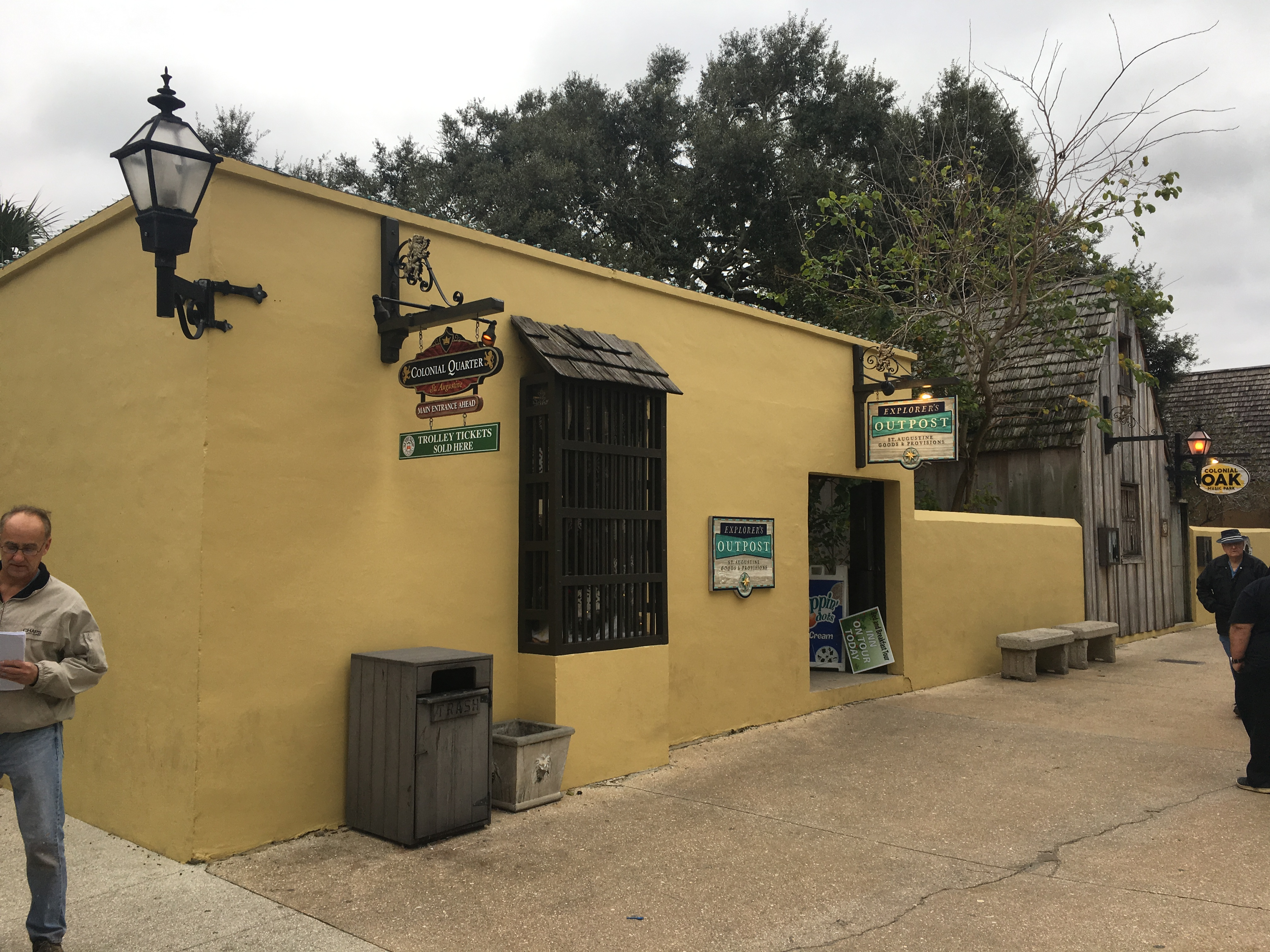 Near the entrance of the Colonial Quarter in St. Augustine, Florida, December 2018